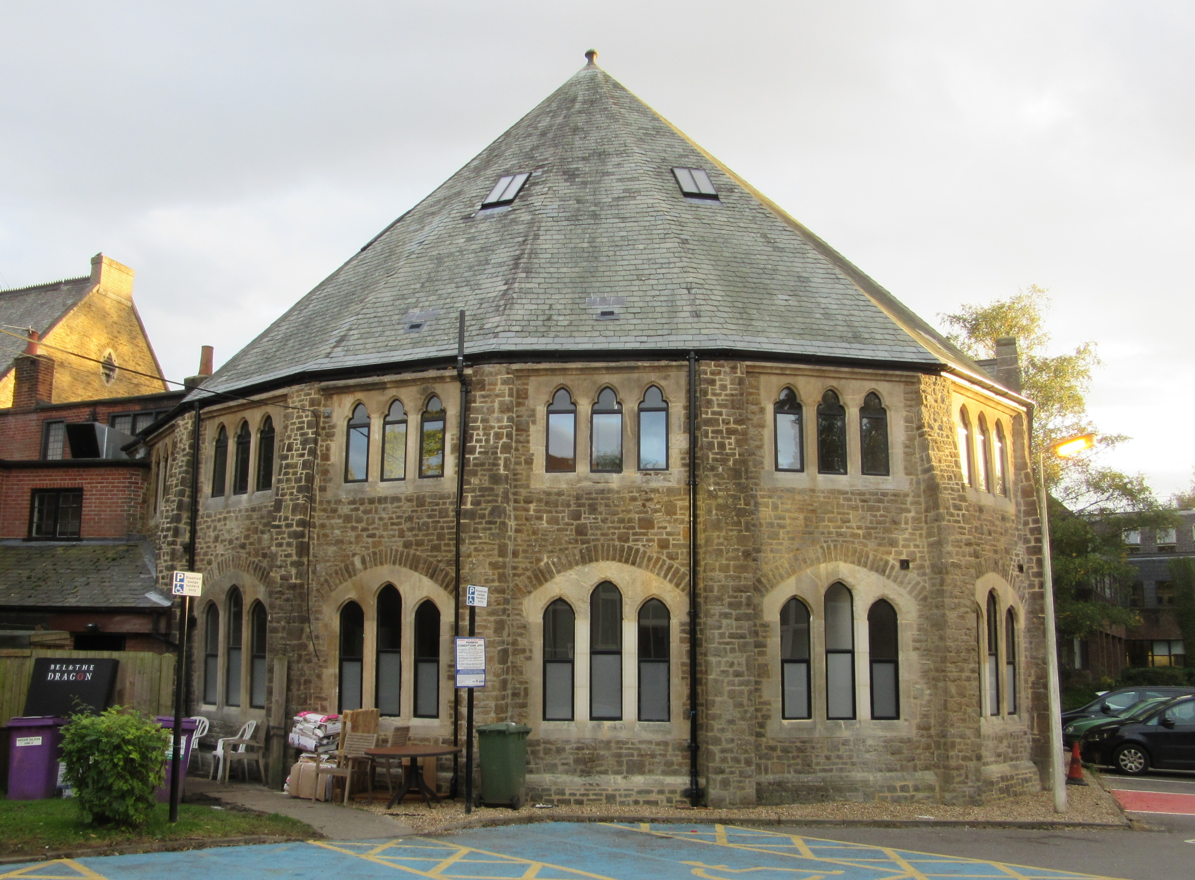 Former Godalming Congregational Church, Bridge Road, Godalming, Borough of Waverley, Surrey, England. Now a restaurant. This view shows part of the former schoolroom and mission room complex to the rear.